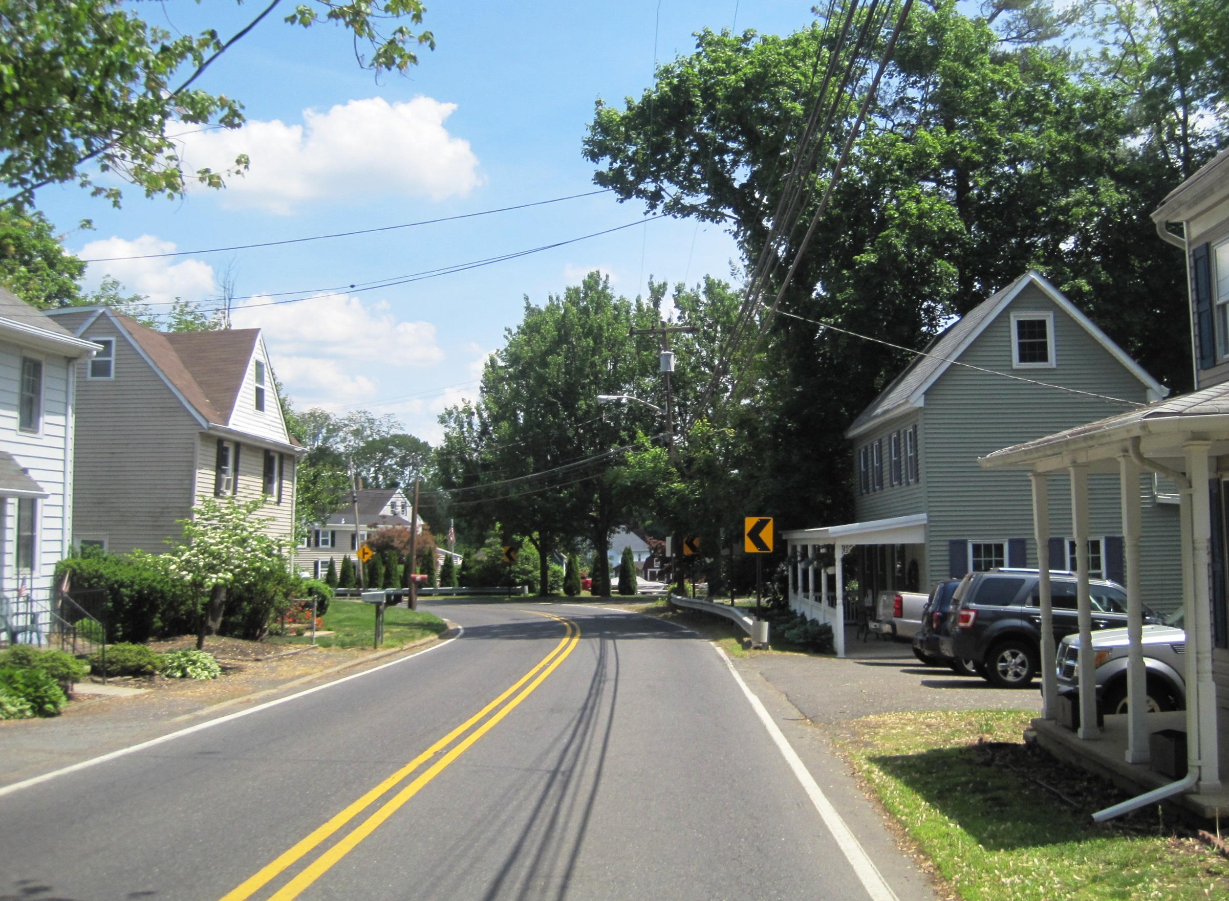 Photo of Jacobstown, New Jersey, an unincorporated community within North Hanover Township. Photo taken on eastbound County Route 528 between Schoolhouse Road and Jacobstown-Cookstown Road.